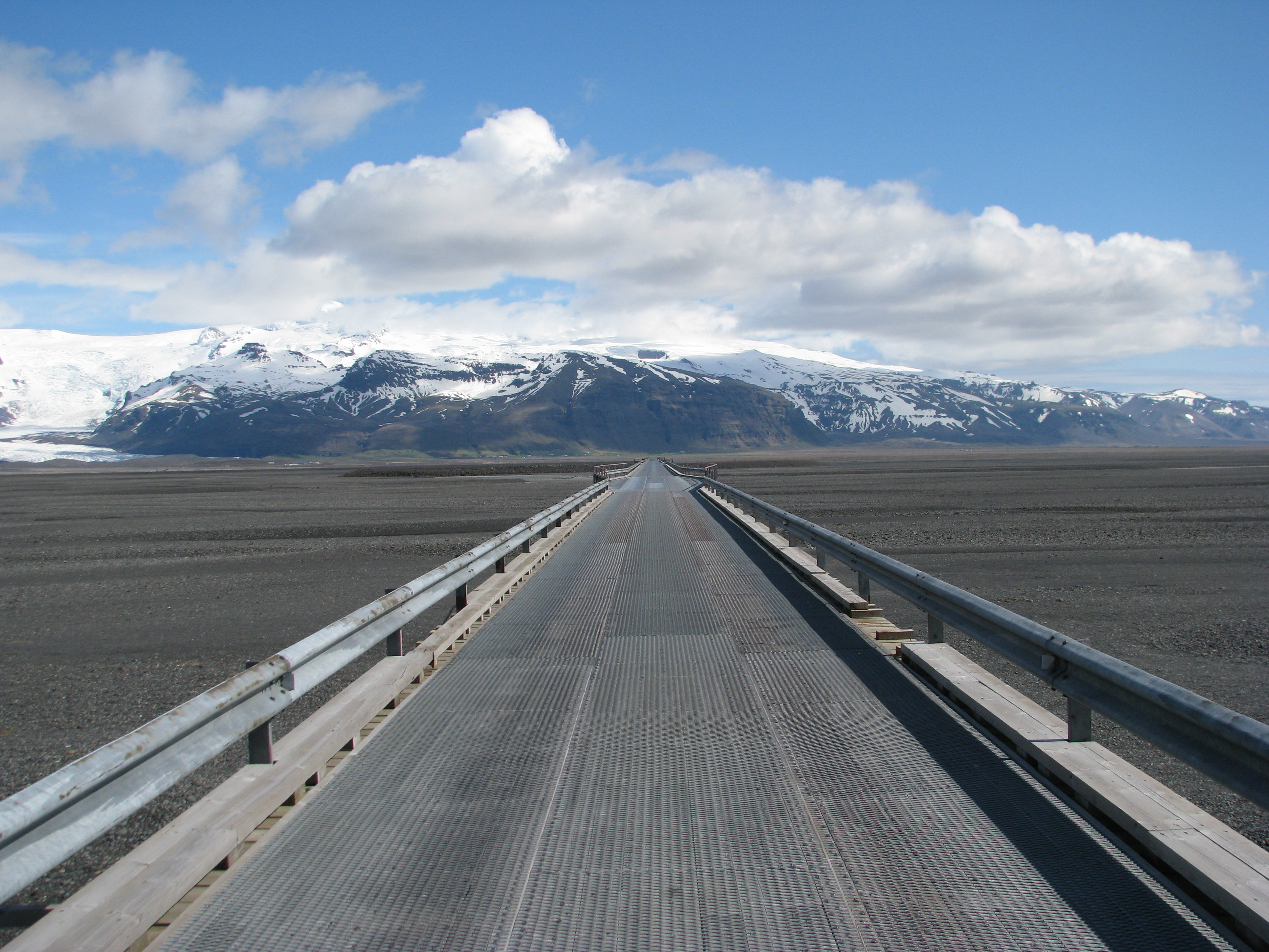 The Skeiðarárbrú, the longest bridge of Iceland crossing the Skeiðará.